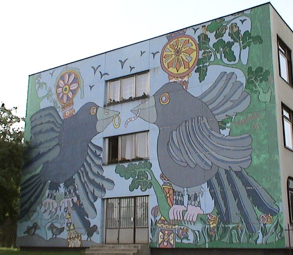 Mural of Avas Grammar School. Miskolc, Hungary. Painter: Morphée (France), 1991